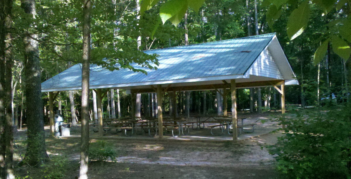 Northwest Park, Chatham County NC, USA, May 2013. Picnic Shelter 1.